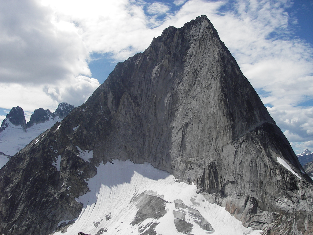 I made this image in August, 2006 while on a climbing trip to the Bugaboos. As per the licensing, attribute and use at will (GFDL and CC-BY 2.5).